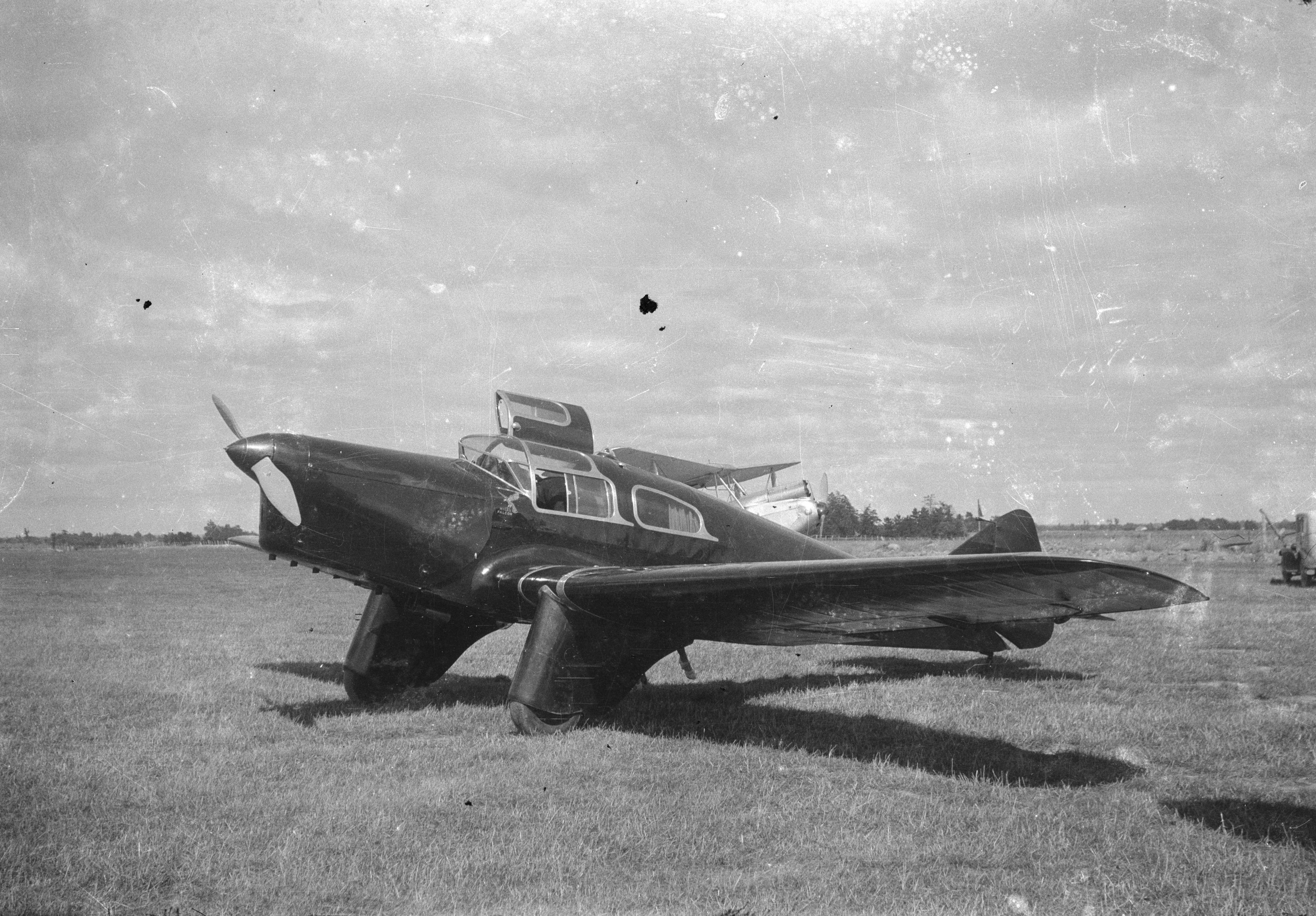 Miles M-3B Falcon Major ZK-AEI at Milson airport, Palmerston North, New Zealand. This aircraft operated by Union Airways crashed at Rongotai, Wellington on 19 February 1936 after touching the airport's anemometer mast as it landed in gusty weather. The pilot died in hospital, the only passenger suffered minor injuries Press report